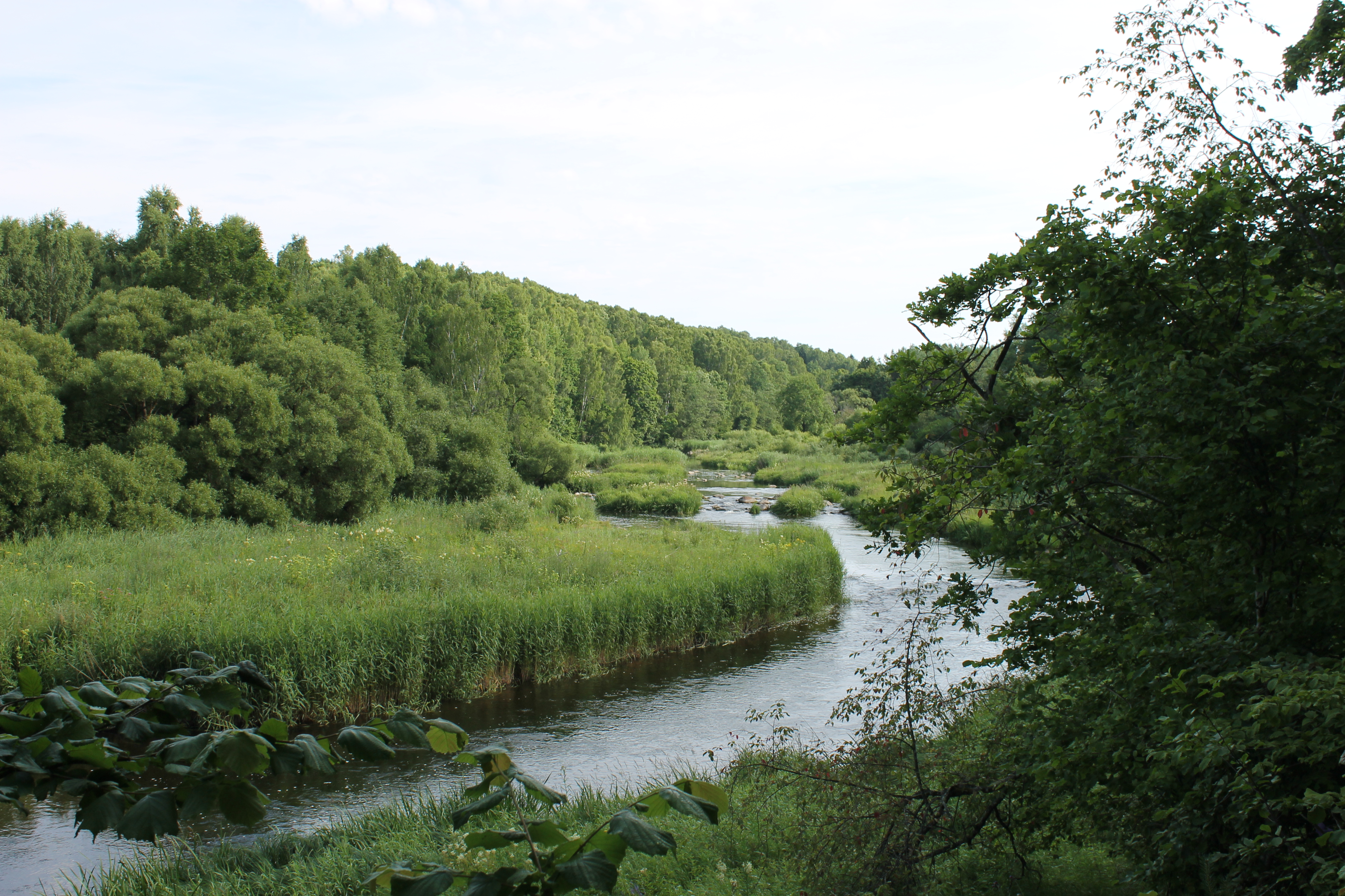 Dauginčiai, Kretinga district, Lithuania